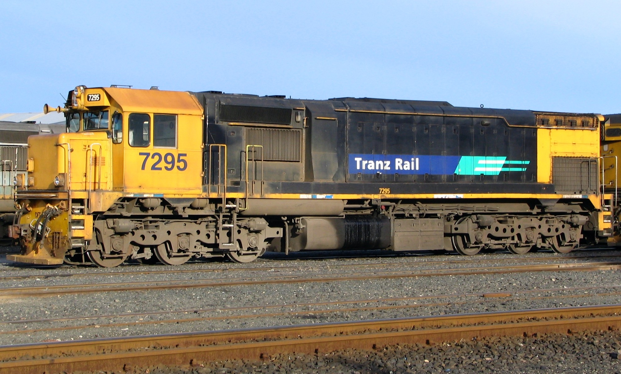 NZR DFT diesel-electric locomotive 7295 at Dunedin, New Zealand; own photo